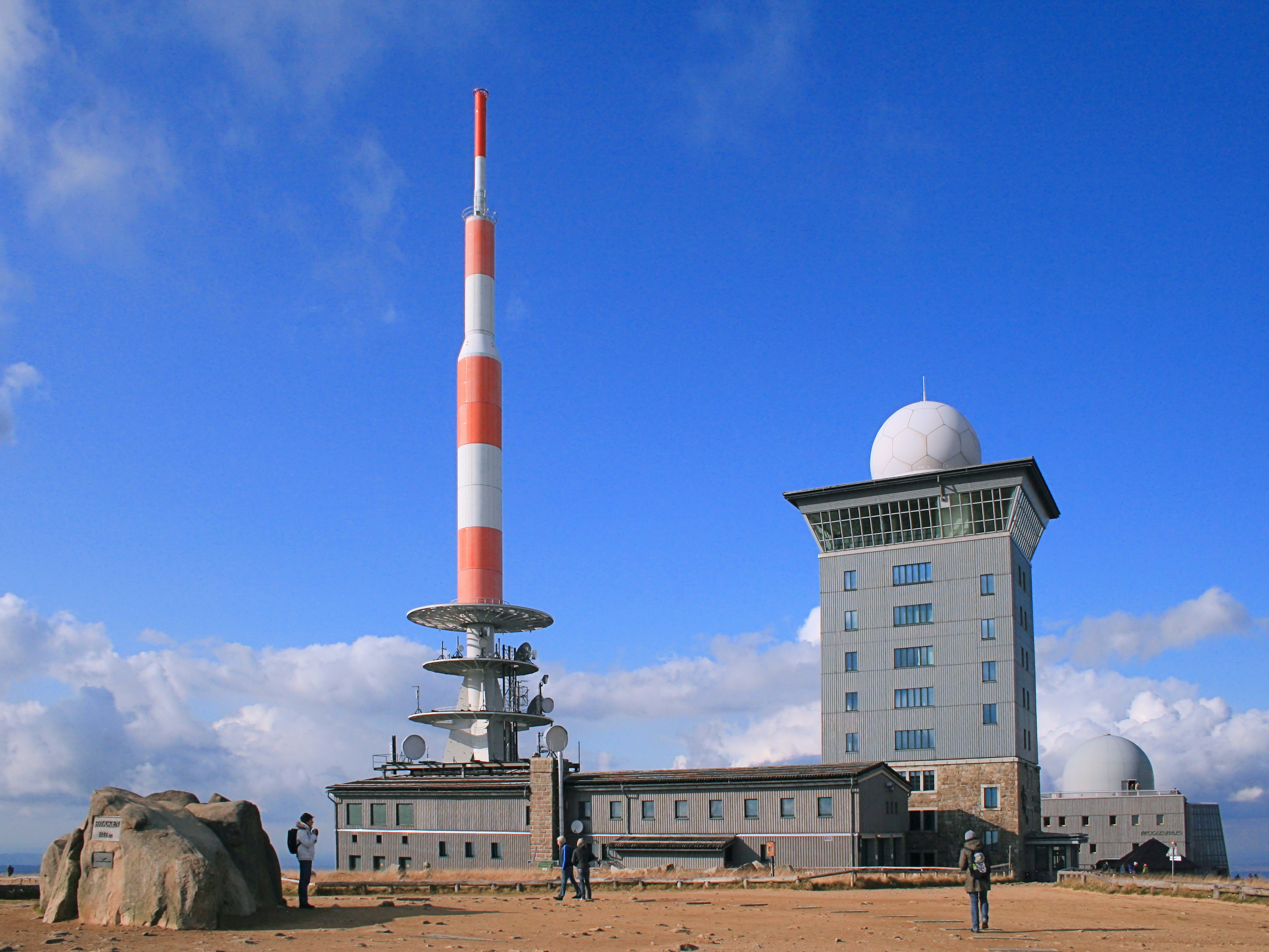 The hilltop of the Brocken in the Harz National Park